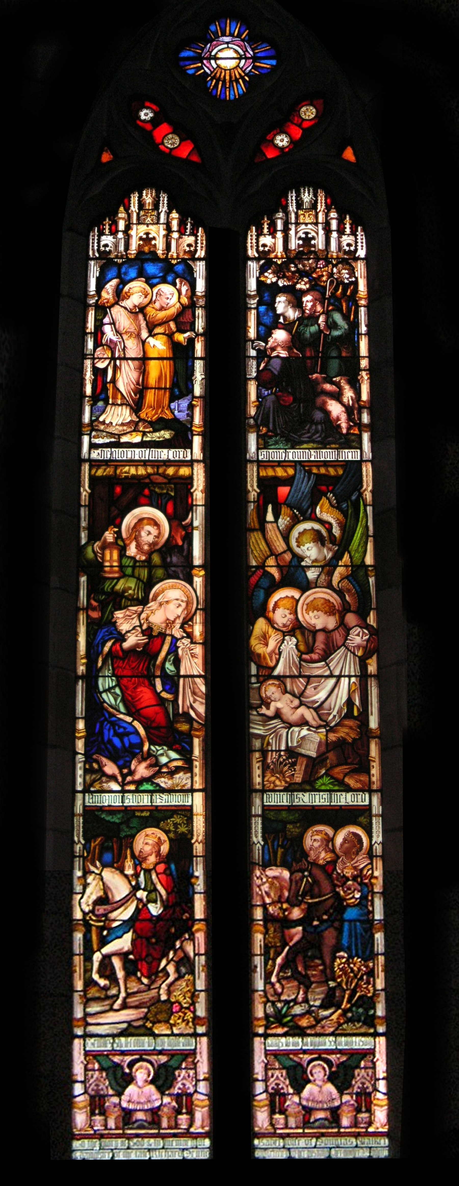 St John's Angliican Church, Darlinghurst Sydney, The Nativity by Clayton and Bell, England, based on German engraving. Date:1875-80? This picture is a composite of three images, the first join being above the manger scene and the second, below the heads of the Magi (the lowest section is of poor quality). The outer borders have been darkened.